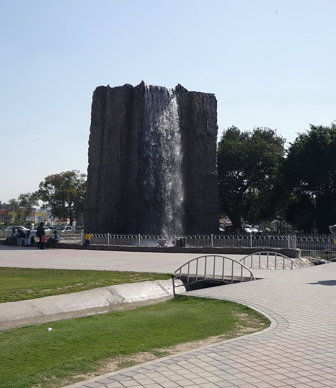 waterfall at entrance of Jilani park (formerly known as Race Course park) Lahore.